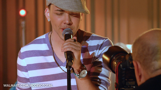 Check out the full exclusive performance with Prince Royce at